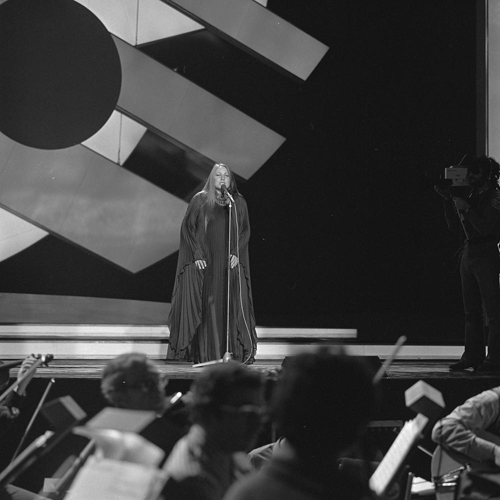 Mariza Koch at a rehearsal for the Eurovision Song Contest 1976.